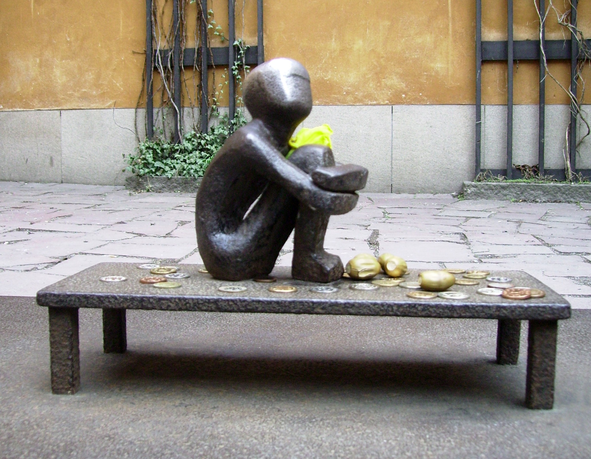 Picture of Järnpojke in Stockholm